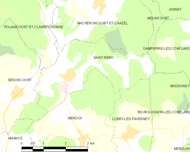 Map of French municipality